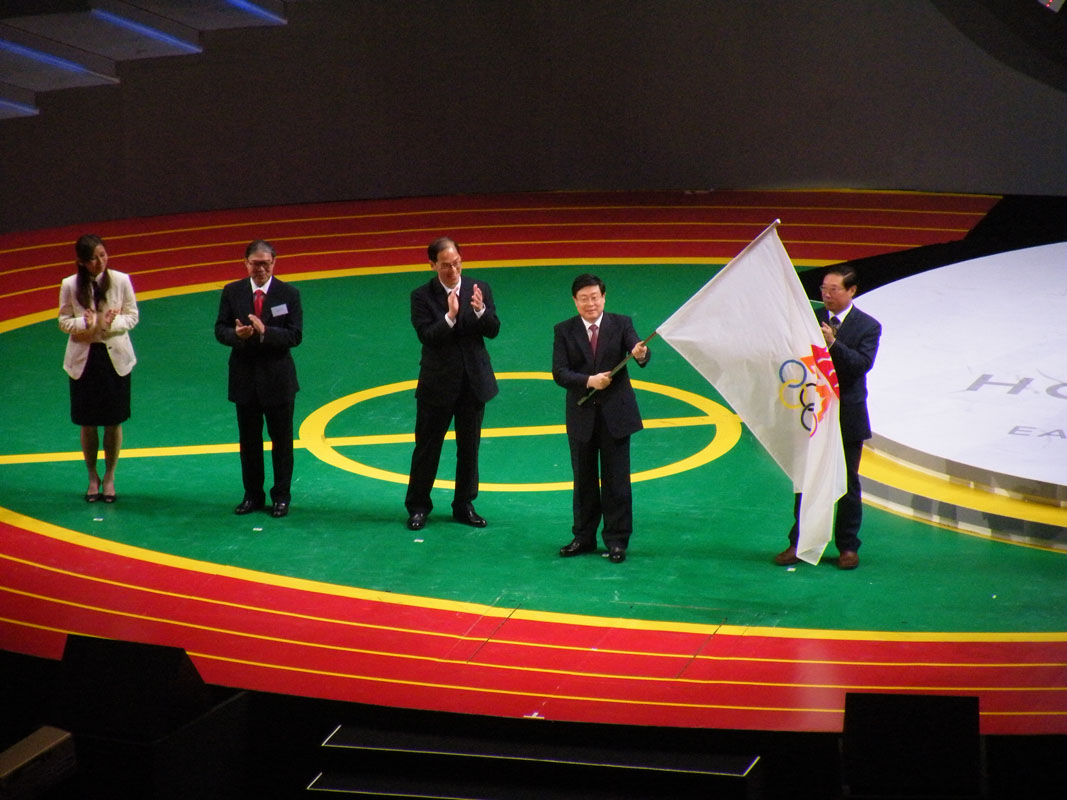 2009 East Asian Games Closing Ceremony - Handover of the EAG flag